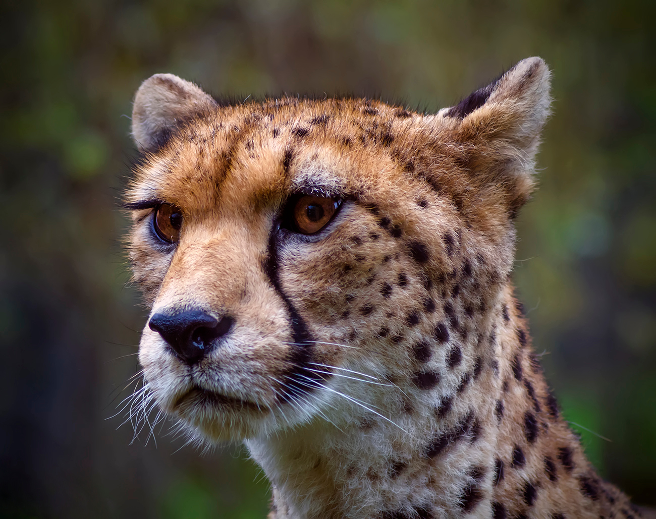 The Northwest African Cheetah (Acinonyx jubatus hecki), also known as the Saharan Cheetah, is a subspecies of cheetah found in the northwestern part of Africa (particularly the central western Sahara desert and the Sahel). It is classified as critically endangered, with a total world population estimated to be about 250 mature individuals. The main prey of the Northwest African Cheetah are antelopes which have adapted to an arid environment, such as the addax, Dorcas Gazelle, Rhim Gazelle, and Dama Gazelle. It may also take smaller animals such as hares. These cheetahs can subsist without direct access to water, obtaining water indirectly from the blood of their prey